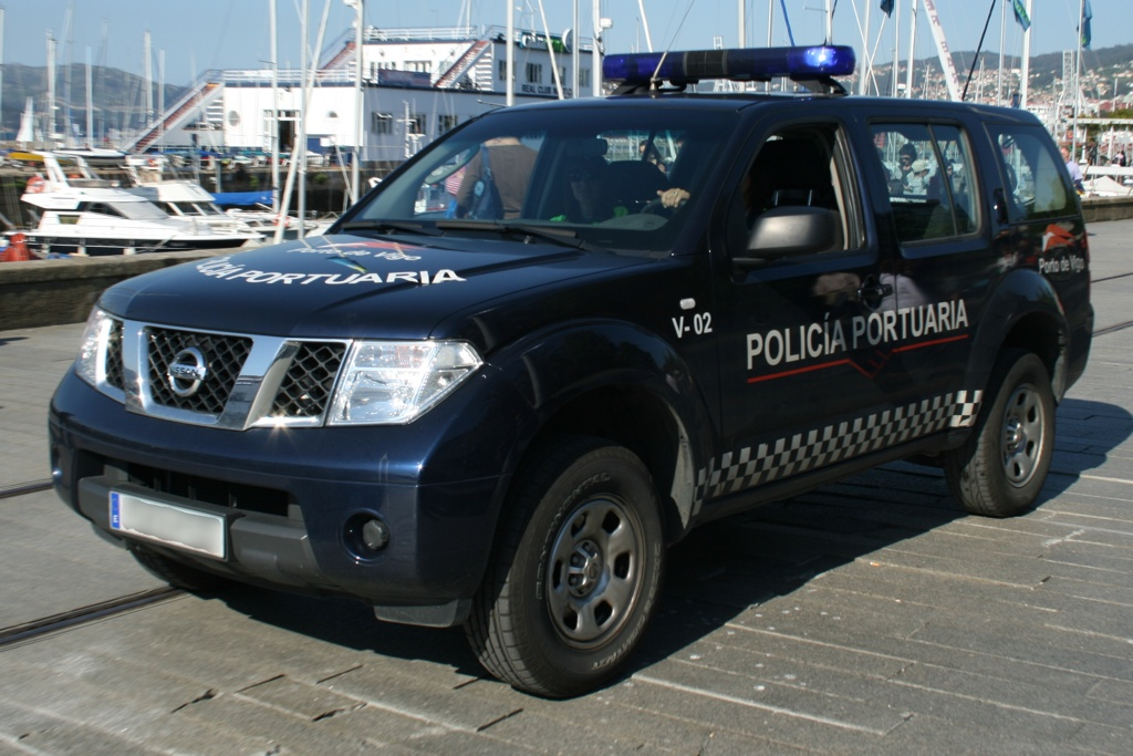 Portuary Police of Vigo. Off-roading Nissan Pathfinder of the Port Police of Vigo (Galicia, Spain).